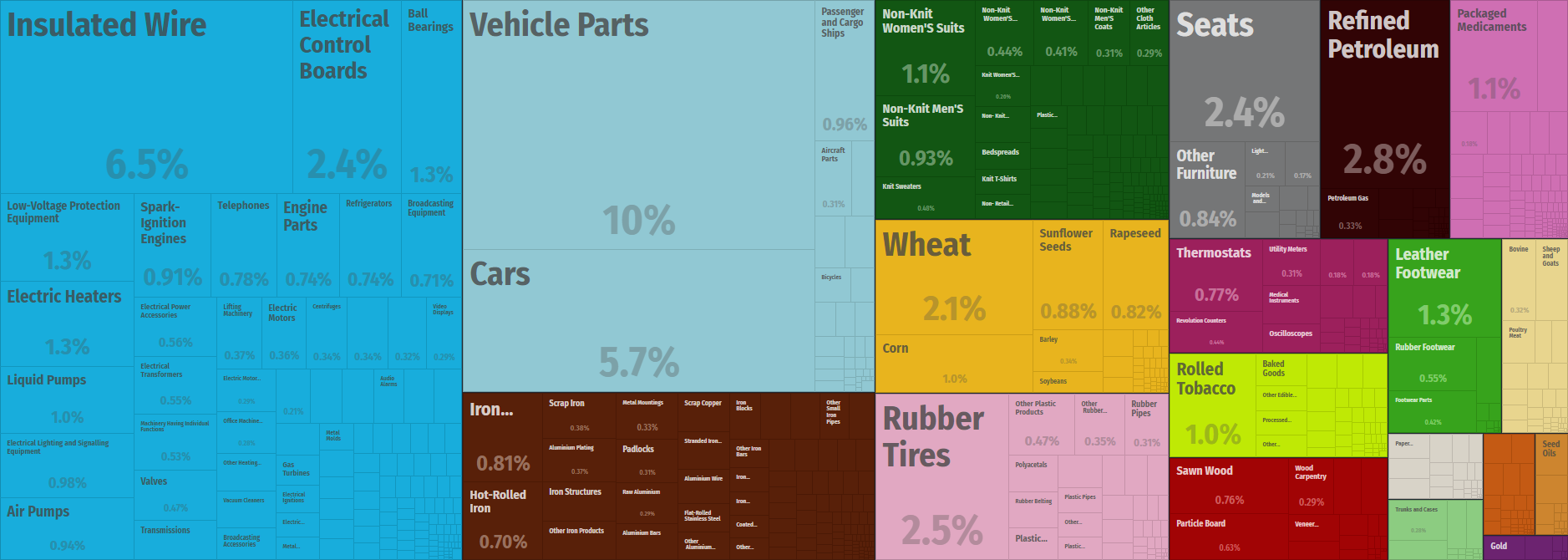 A proportional representation of Romania's exports.